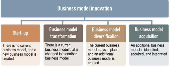 The figure describes the four different types of business model innovation